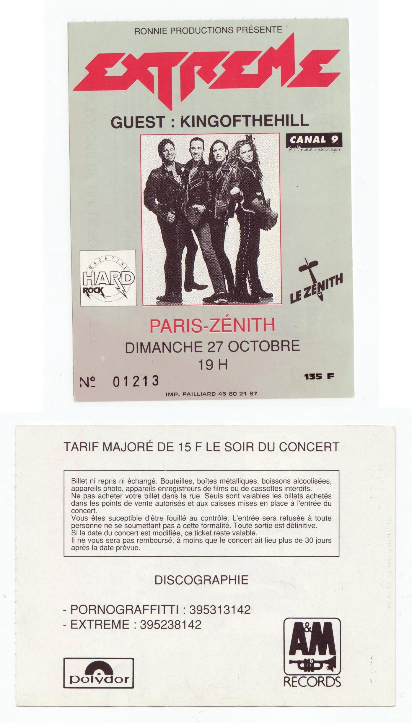 Ticket Stub - Extreme Live in France, Paris Le Zénith, 27 October 1990